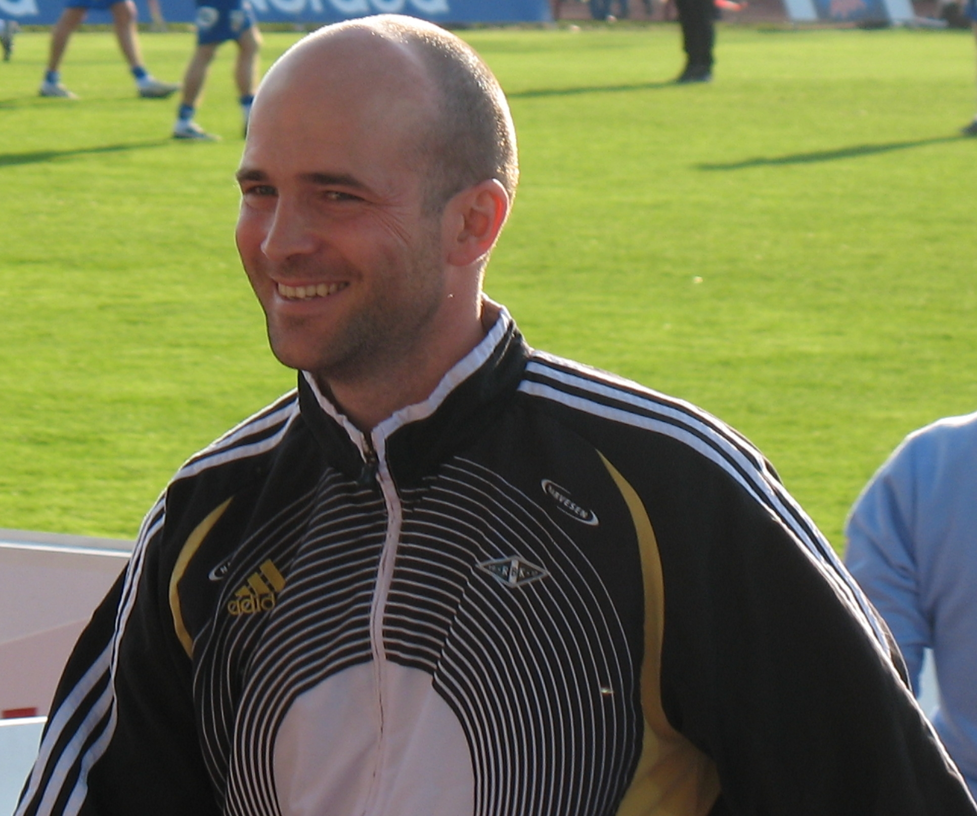 Knut Tørum, assistant coach of the Norwegian football (soccer) team Rosenborg.